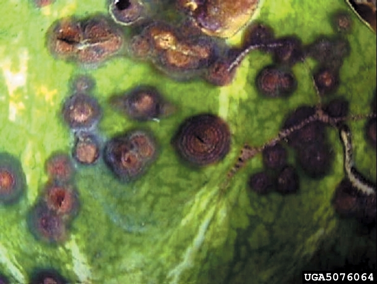 Colletotrichum orbiculare Brown to black, sunken lesions with concentric rings within the lesion. Begins as small spots that enlarge. A pink spore mass can often be observed on the surface of the lesion.